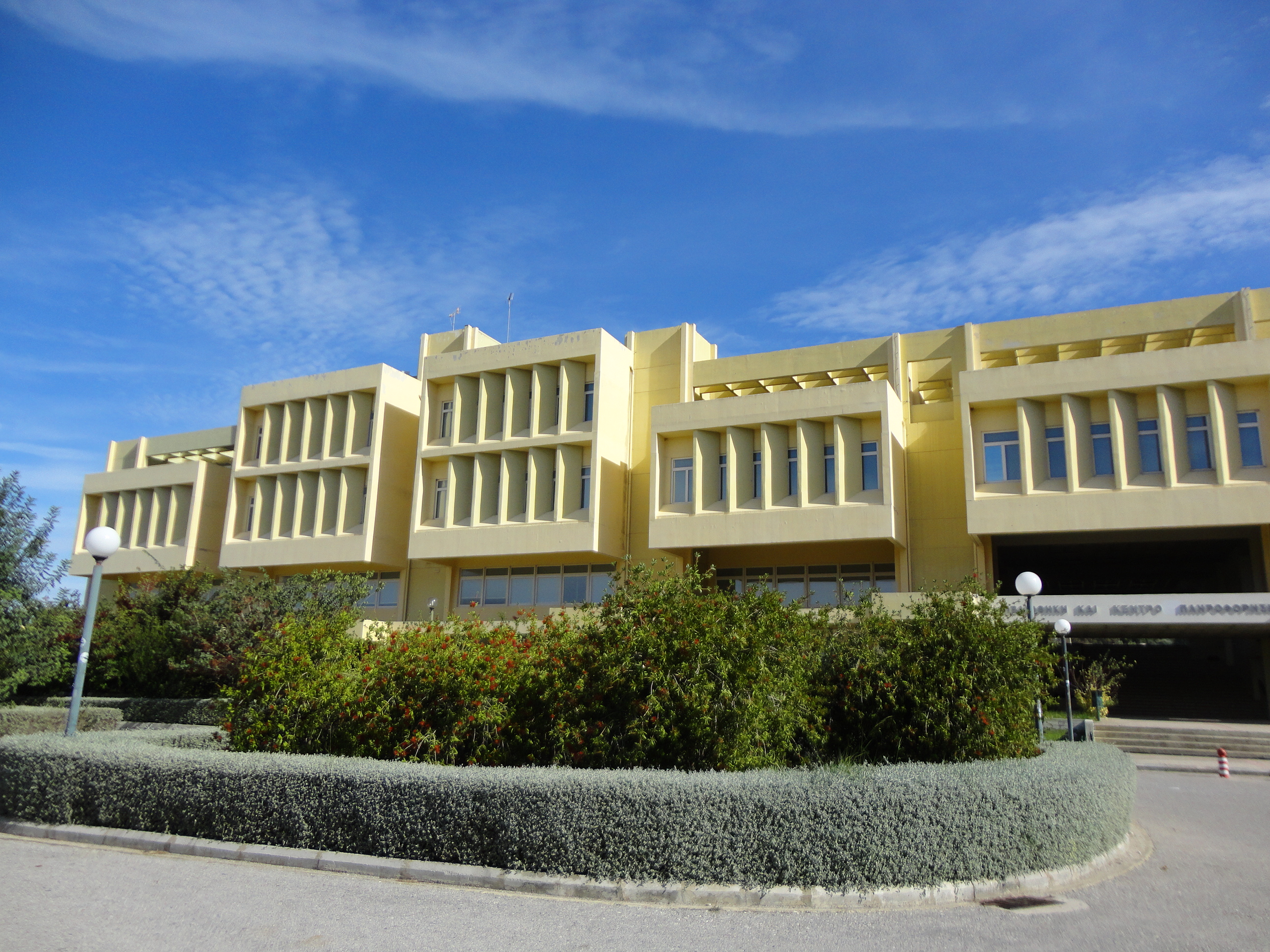 University of Patras, Library and Information Service